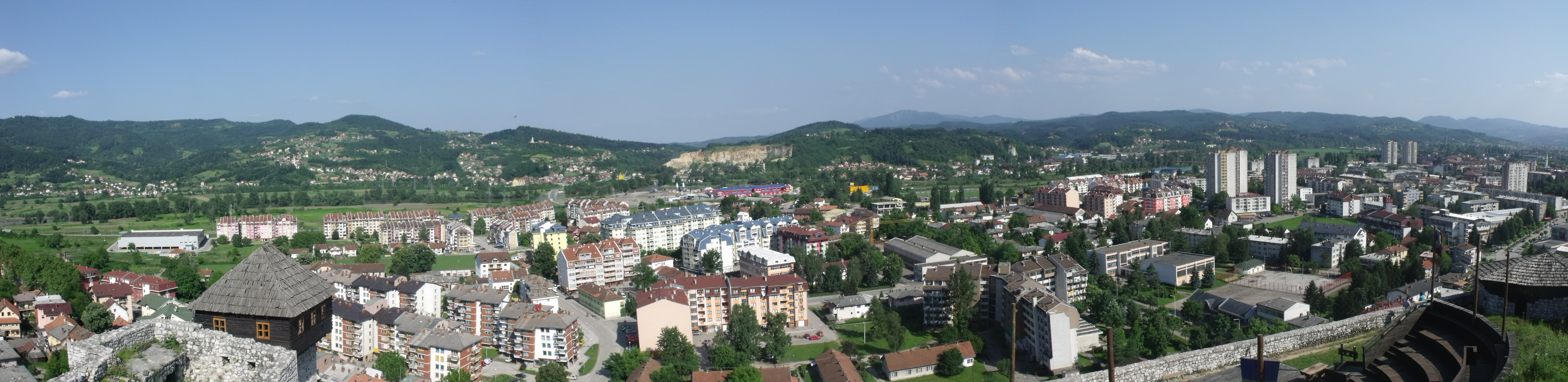 Panorama Doboja